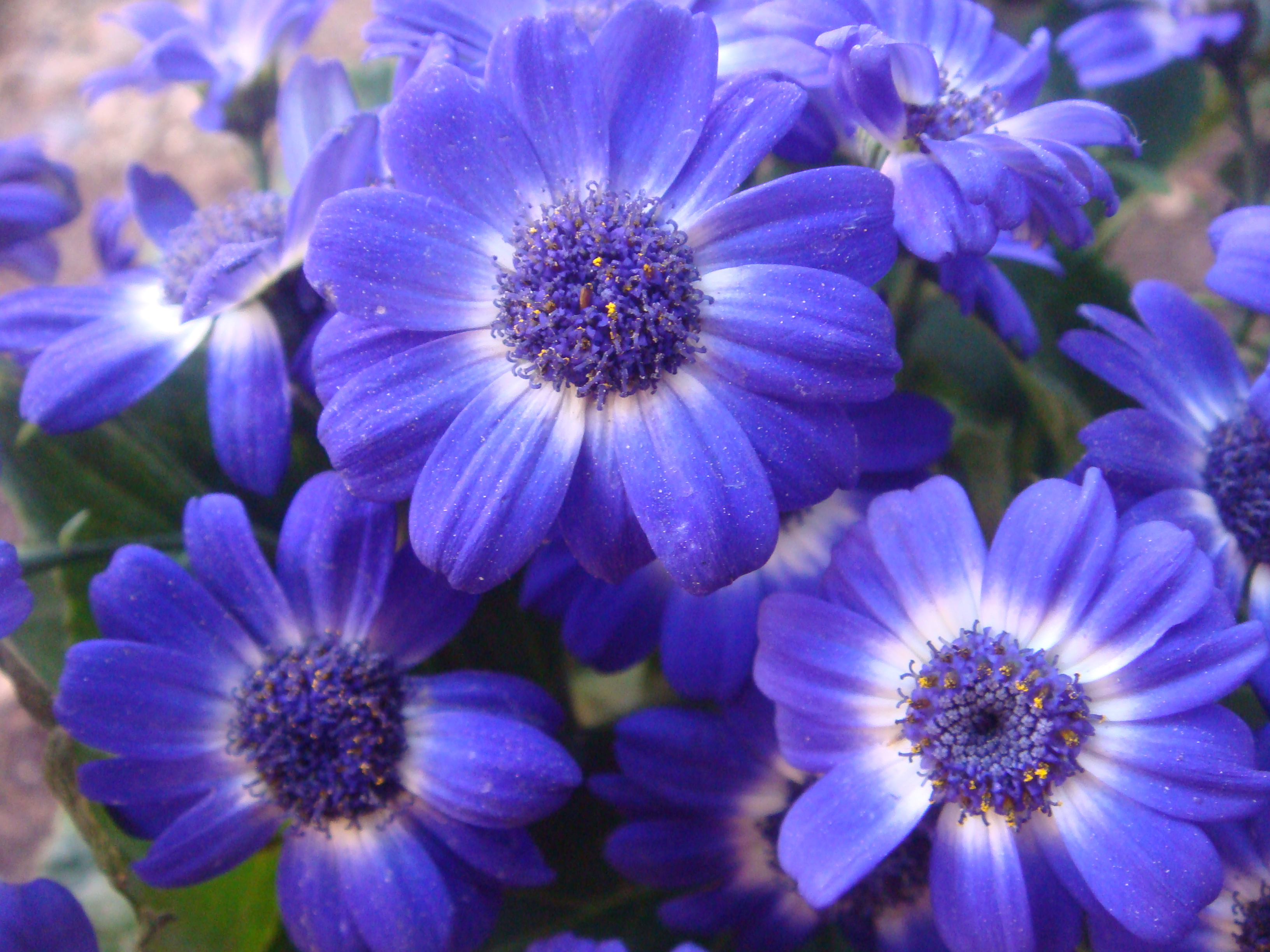 Brachyscome iberidifolia, cultivated, Arizona State University, Tempe, Arizona